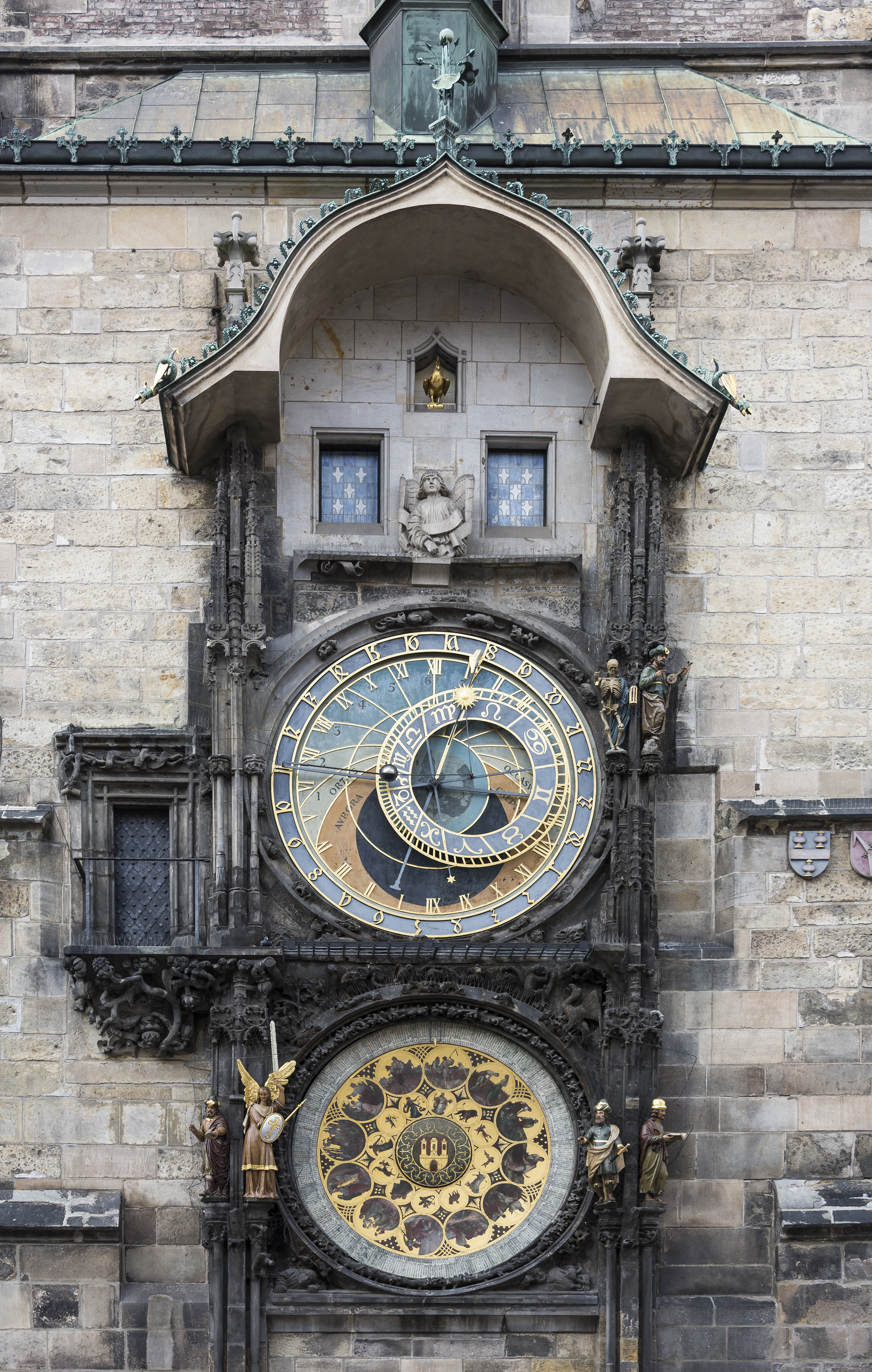 Prague Astronomical Clock